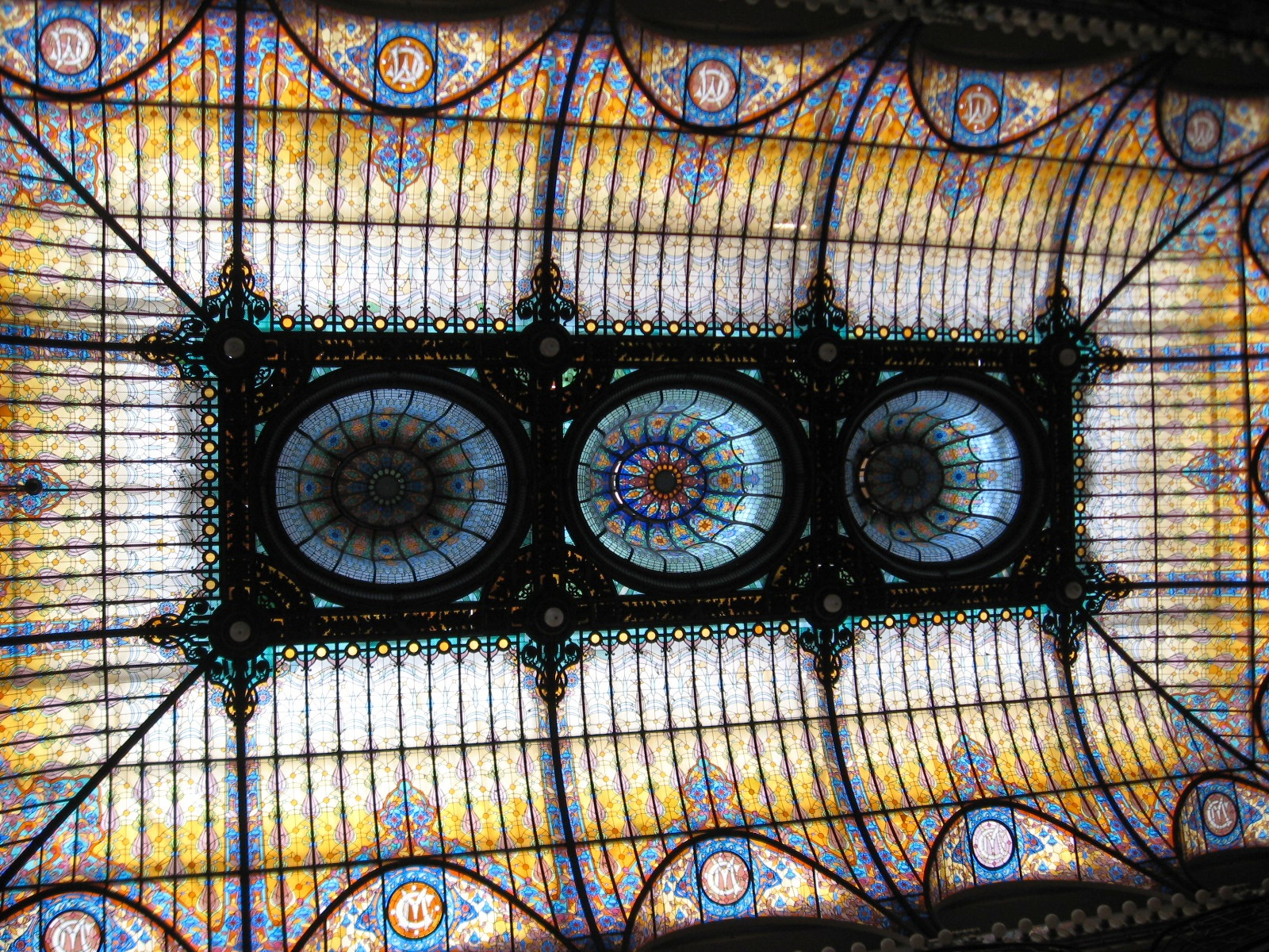 Stained glass skyroof at the Hotel Ciudad de Mexico on 16 de Septiembre in the historic center of Mexico City